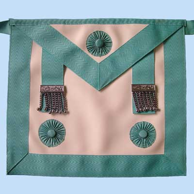 Master Mason apron